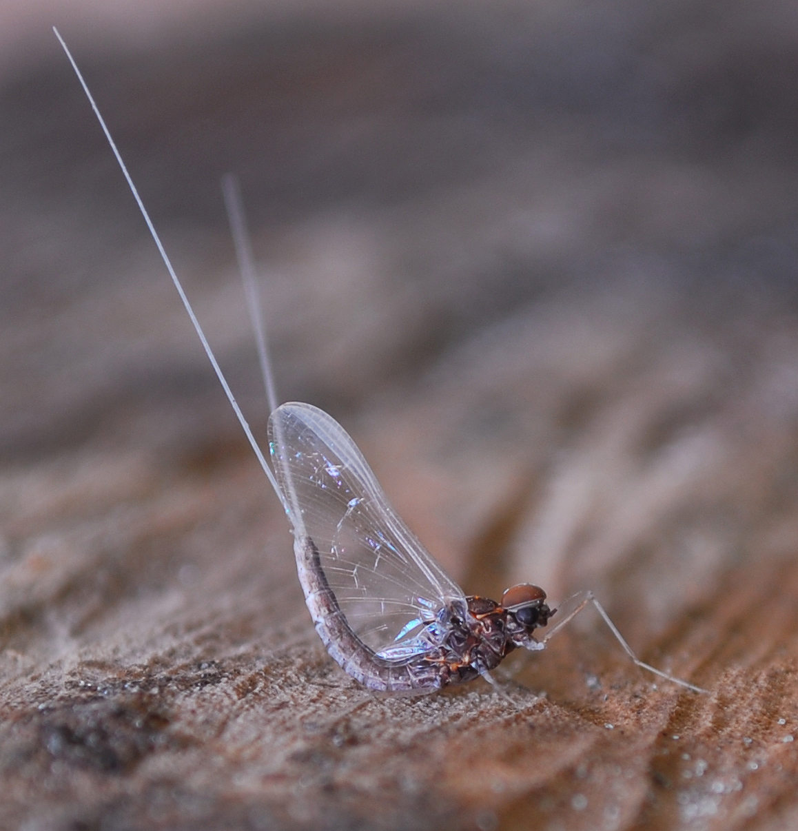 A mayfly in St. Petersburg, FL